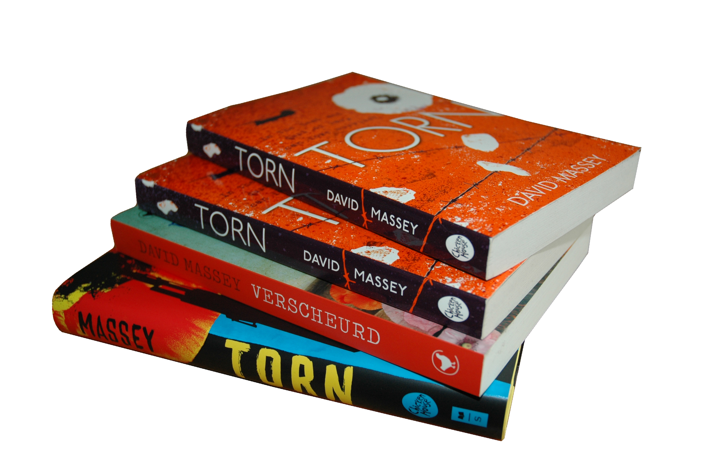 Copies of the YA novel TORN by David Massey